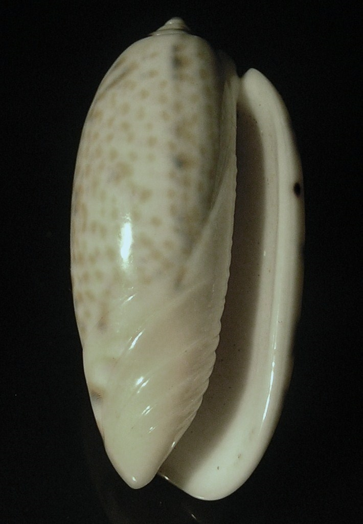 Oliva tricolor philantha Duclos, 1835 , a olive from the family Olividae; South China Sea